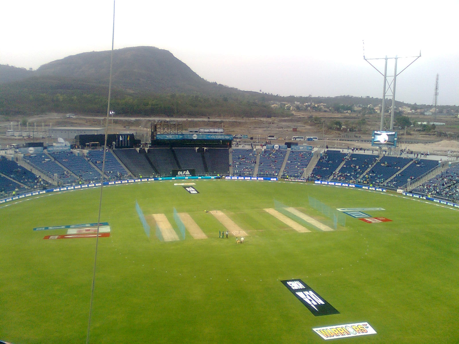 A view of the Subroto Roy Sahara Stadium taken from the South Stand